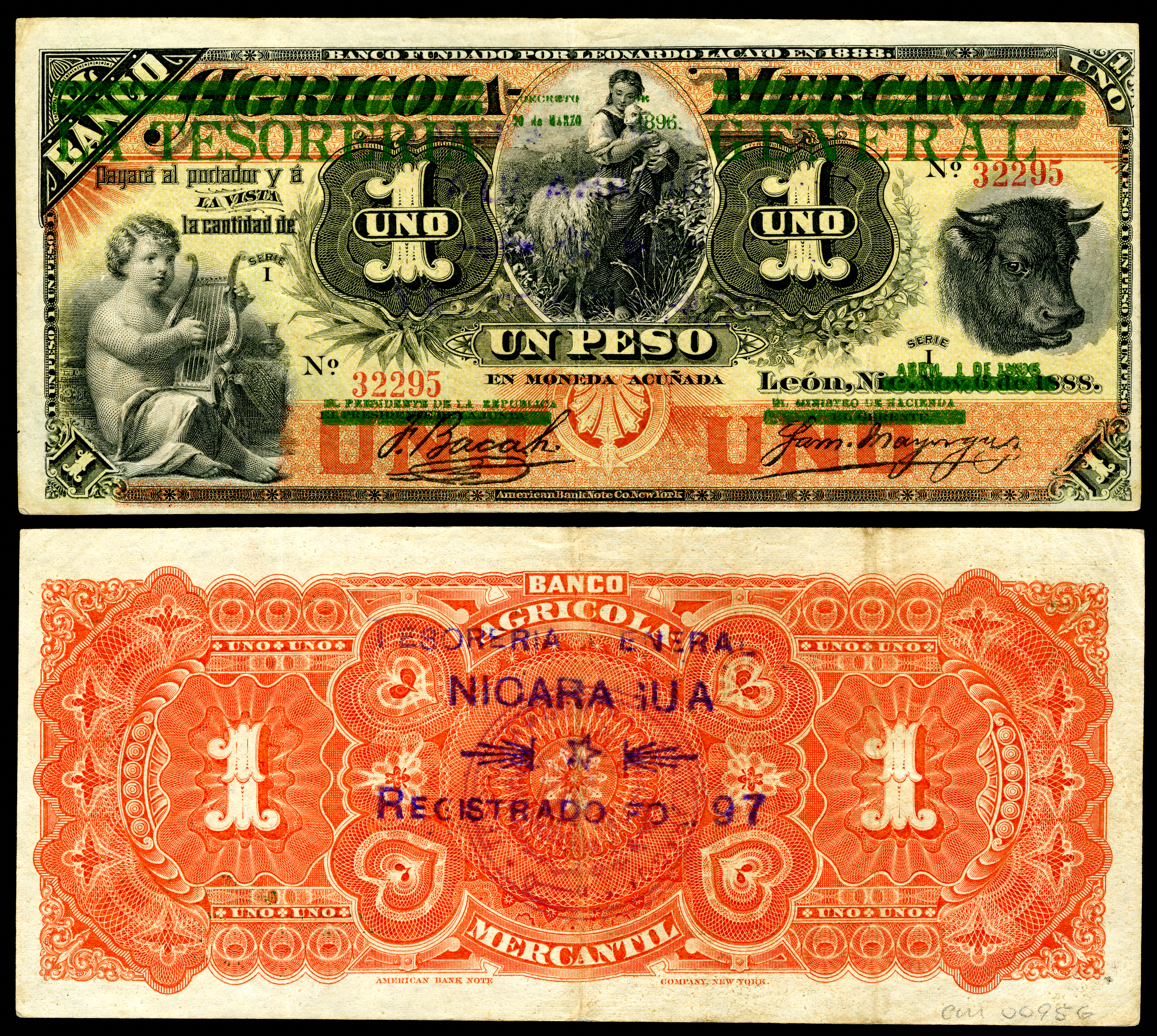 Nicaragua, Tesoreria General, 1 peso (1896). Engraved by the American Bank Note Company.